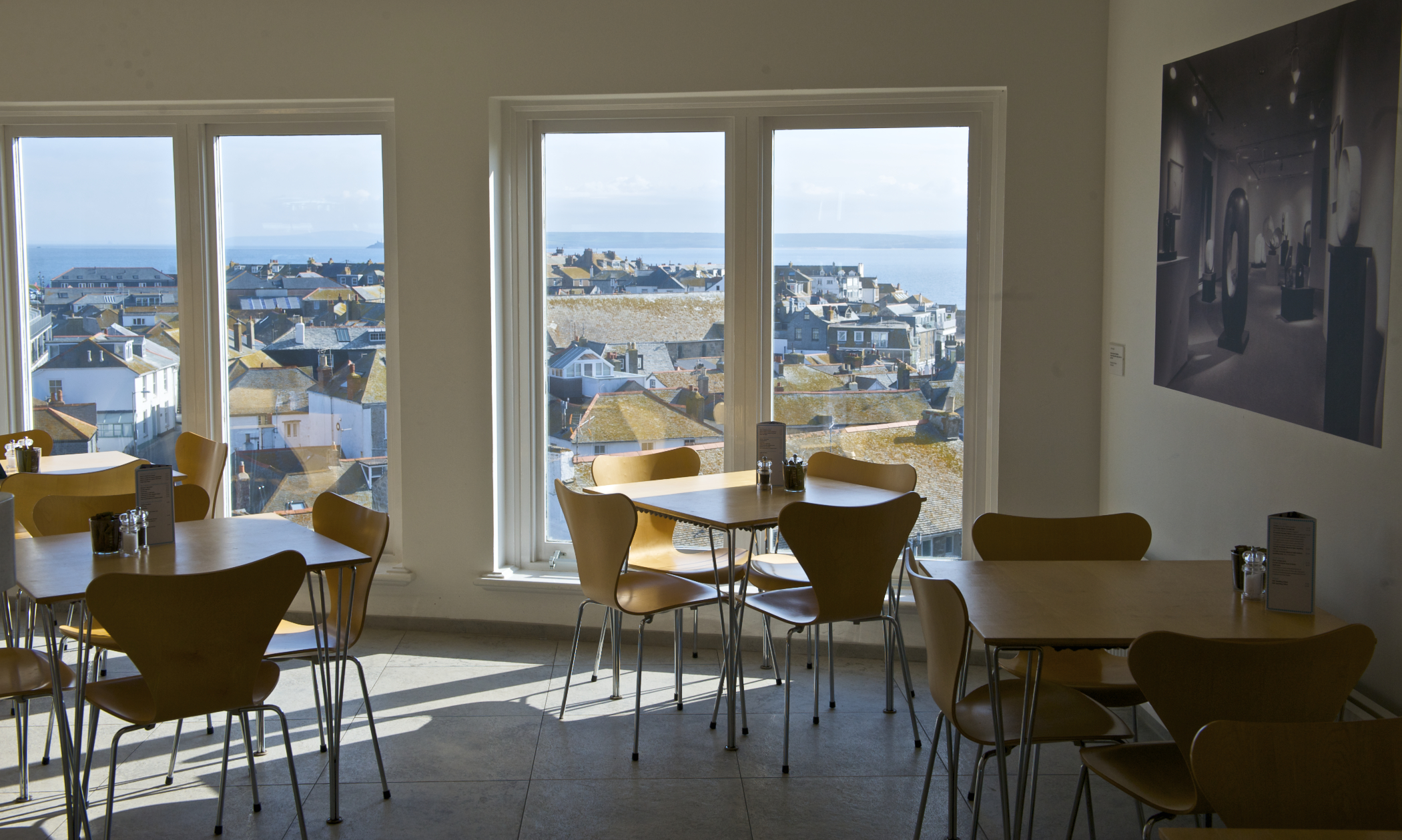 St.Ive Tate Gallery Restaurant